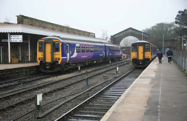 Buxton Station on a dull day